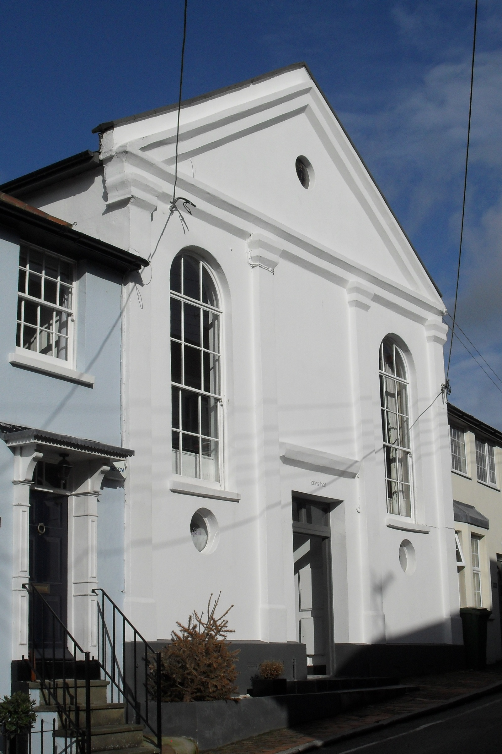 Jarvis Hall, Jarvis Lane, Steyning, District of Horsham, West Sussex, England. A Neoclassical chapel built for the Countess of Huntingdon's Connexion in 1835, and later used by Wesleyan Methodists, Salvation Army and Plymouth Brethren. It is now in residential use. Listed at Grade II by English Heritage (IoE Code 289766)